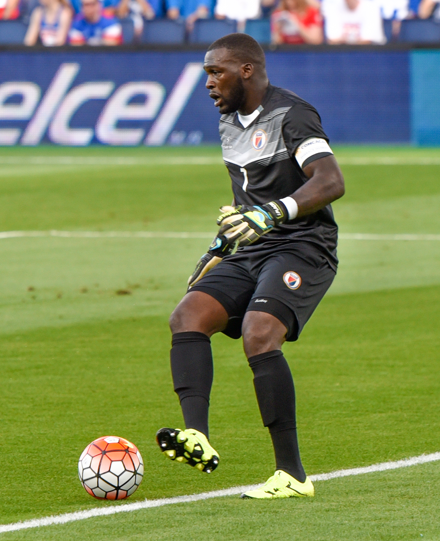 Johny Placide with the Haiti Men's National Futbol Team, playing against Honduras at the Gold Cup in Kansas City, Kansas (Sporting Park) on 13 Jul 2015